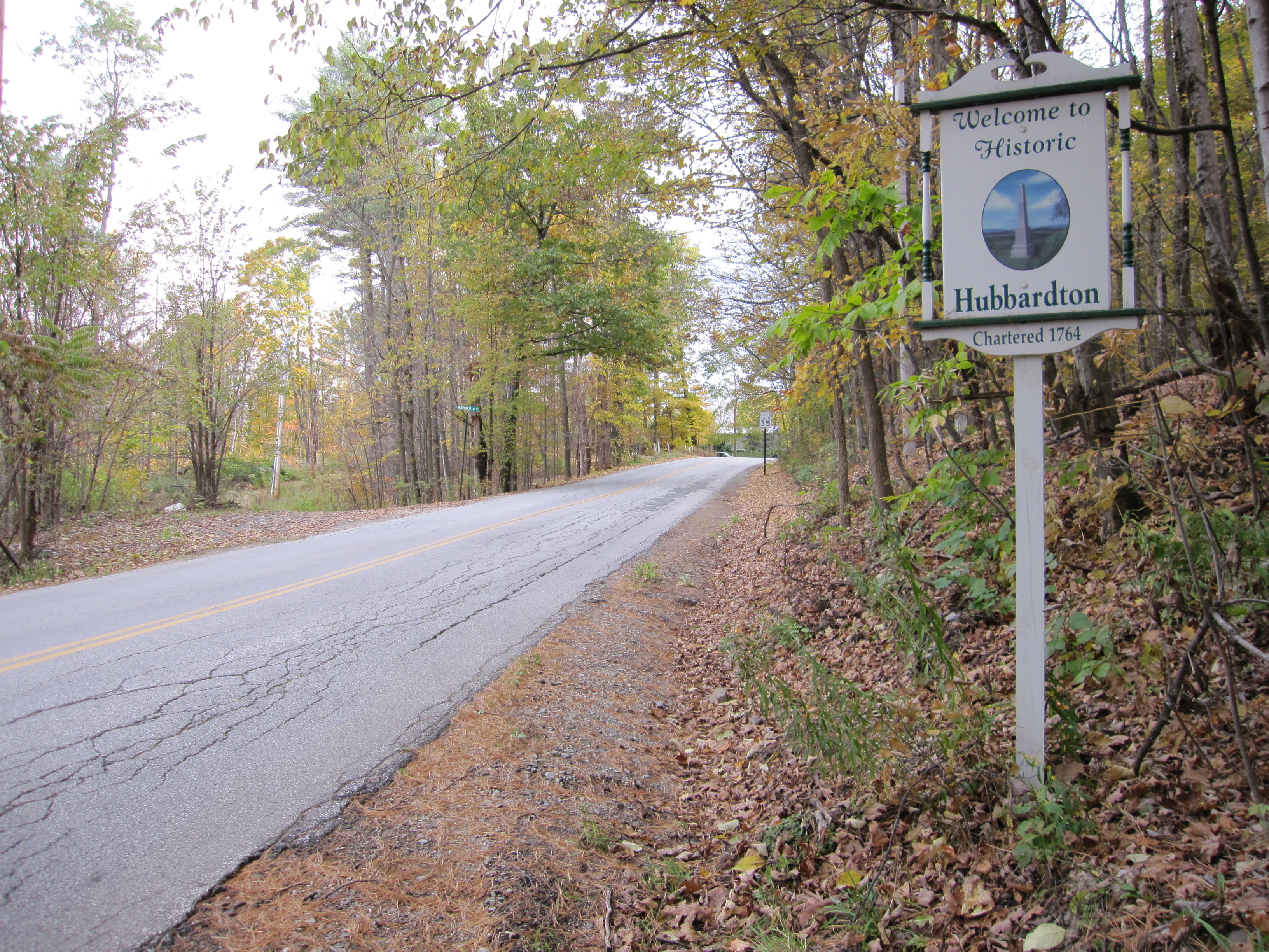 Sign on on Route 144/Lake Hortonia Road on the way in to Hubbardton Vermont.